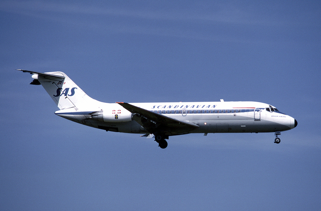 Scandinavian Airlines System Douglas DC-9-21 SE-DBO at Zurich International Airport